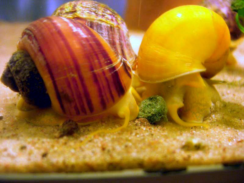 Two Pomacea diffusa and one Pomacea bridgesii fighting over some food. Photo: Soulkeeper